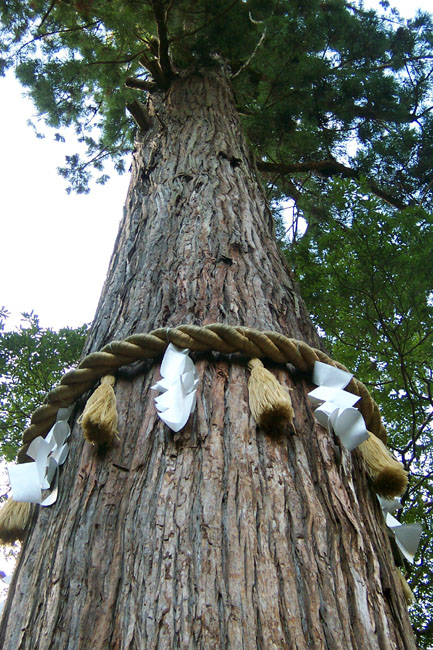 Shimenawa around a giant Sugi at the Yuki shrine in KyotoYuki Shrine - giant cedar